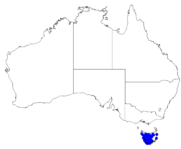 Boronia citriodora occurrence data downloaded from Australasian Virtual Herbarium 10 April 2019 using This download included all the environmental overlay fields and ALA's data checking fields including "cultivated / escapee", "outside expert range for species", "latitude is negated", "coordinates are transposed", "taxon misidentified", "habitat incorrect for species", and "suspected outlier" (711 fields). Deleting occurrences for which any of the above were true, 46 specimens with coordinates were deleted.